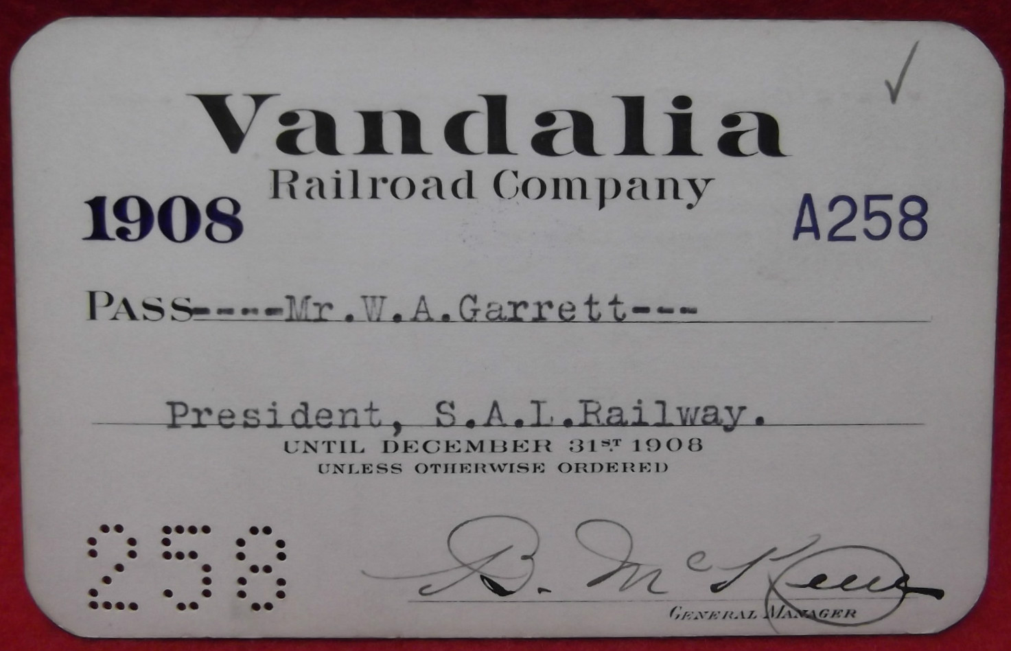 Image of a railroad pass from the Vandalia Railroad in 1908. The holder was president of Seaboard Air Line Railroad at the time.